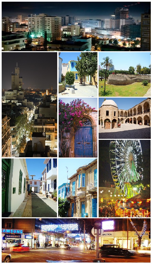 Collage of Nicosia pictures from wikimedia commons